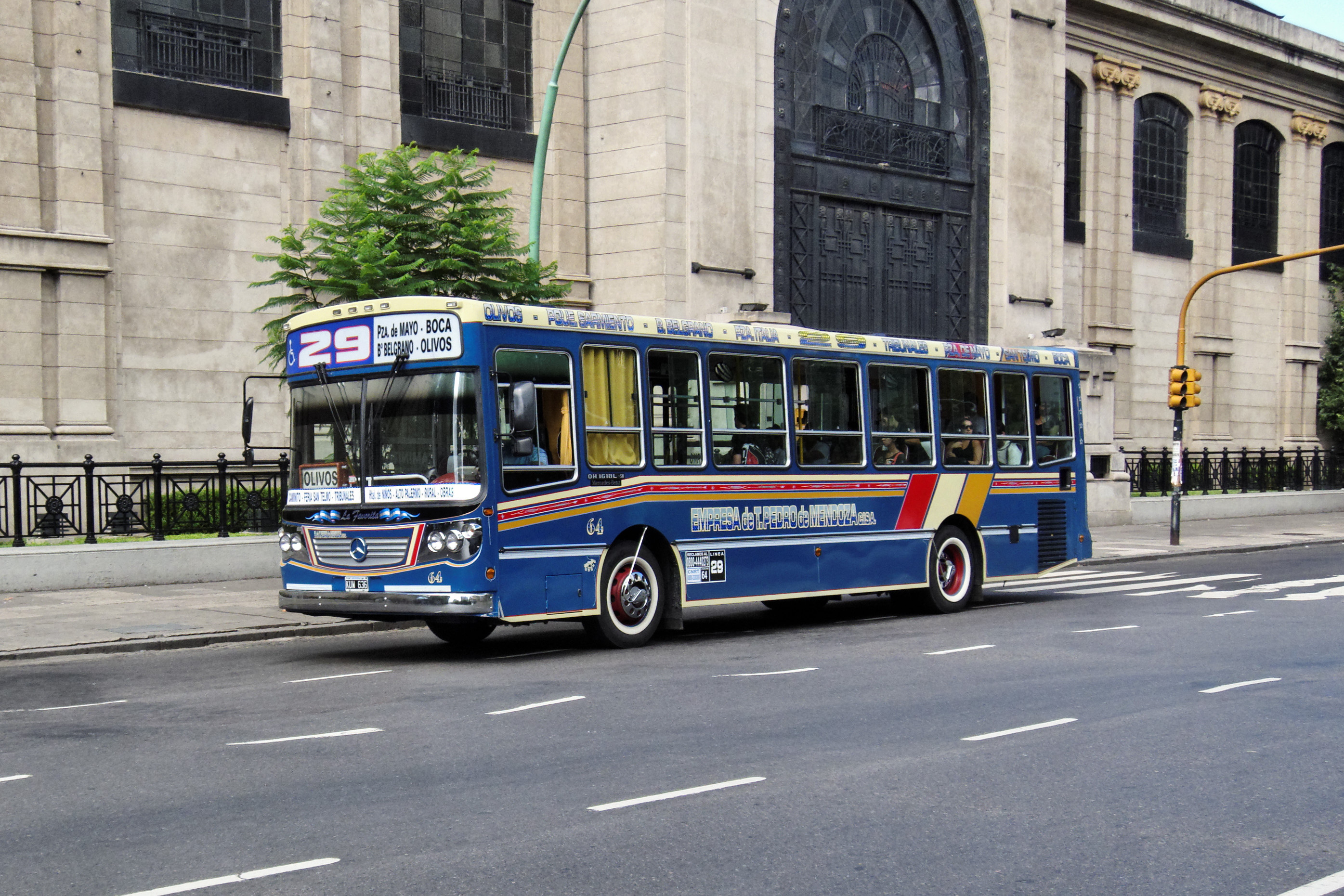 La Favorita Favorito GR bus (reg. KUW 636, #64) with Mercedes-Benz OH 1618 L-SB chassis in Buenos Aires, Argentina. Colectivo, line 29, Empresa de Transportes Pedro de Mendoza C.I.S.A. operator.